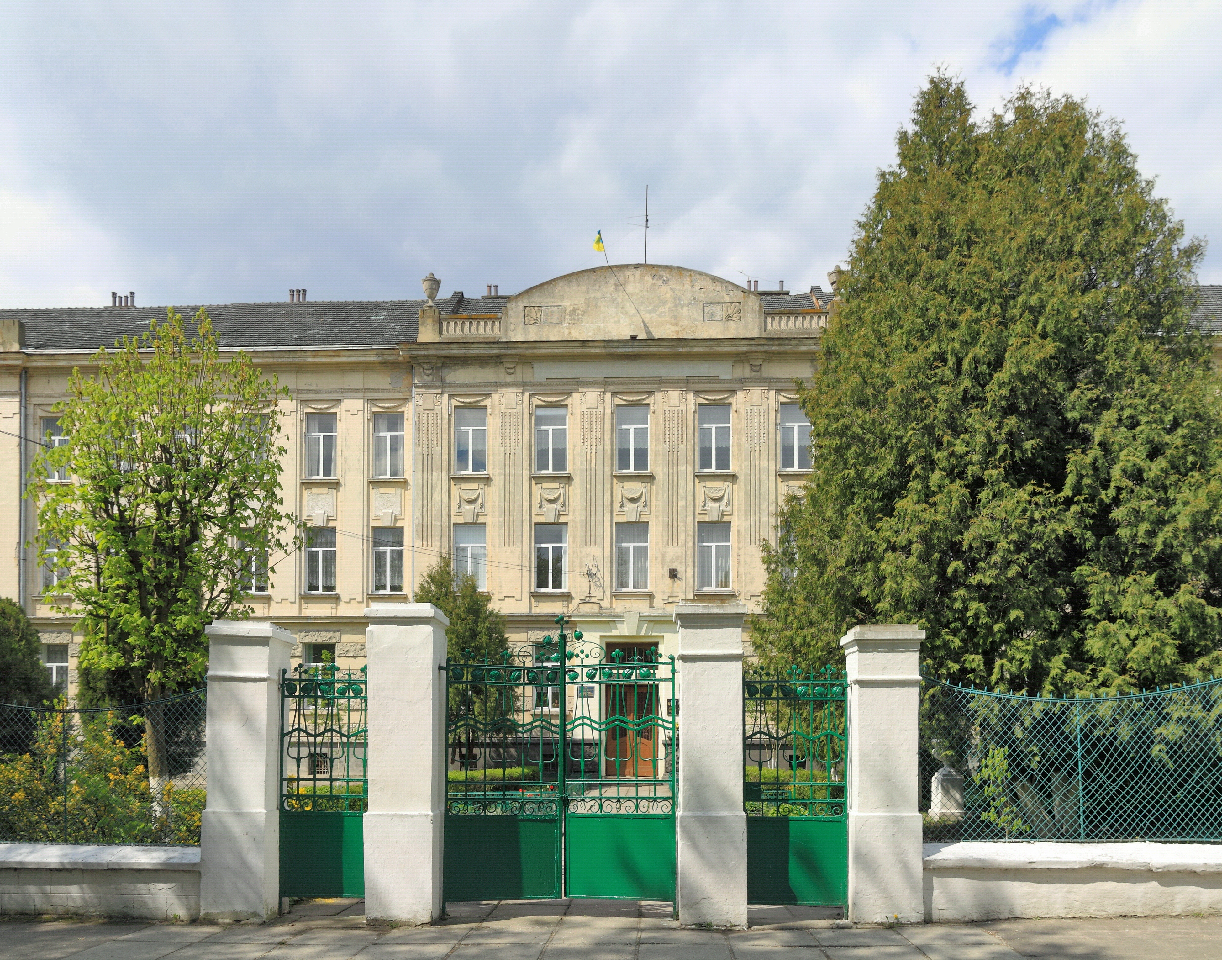 Women's gymnasium. Sokal, Lviv Oblast, Ukraine.